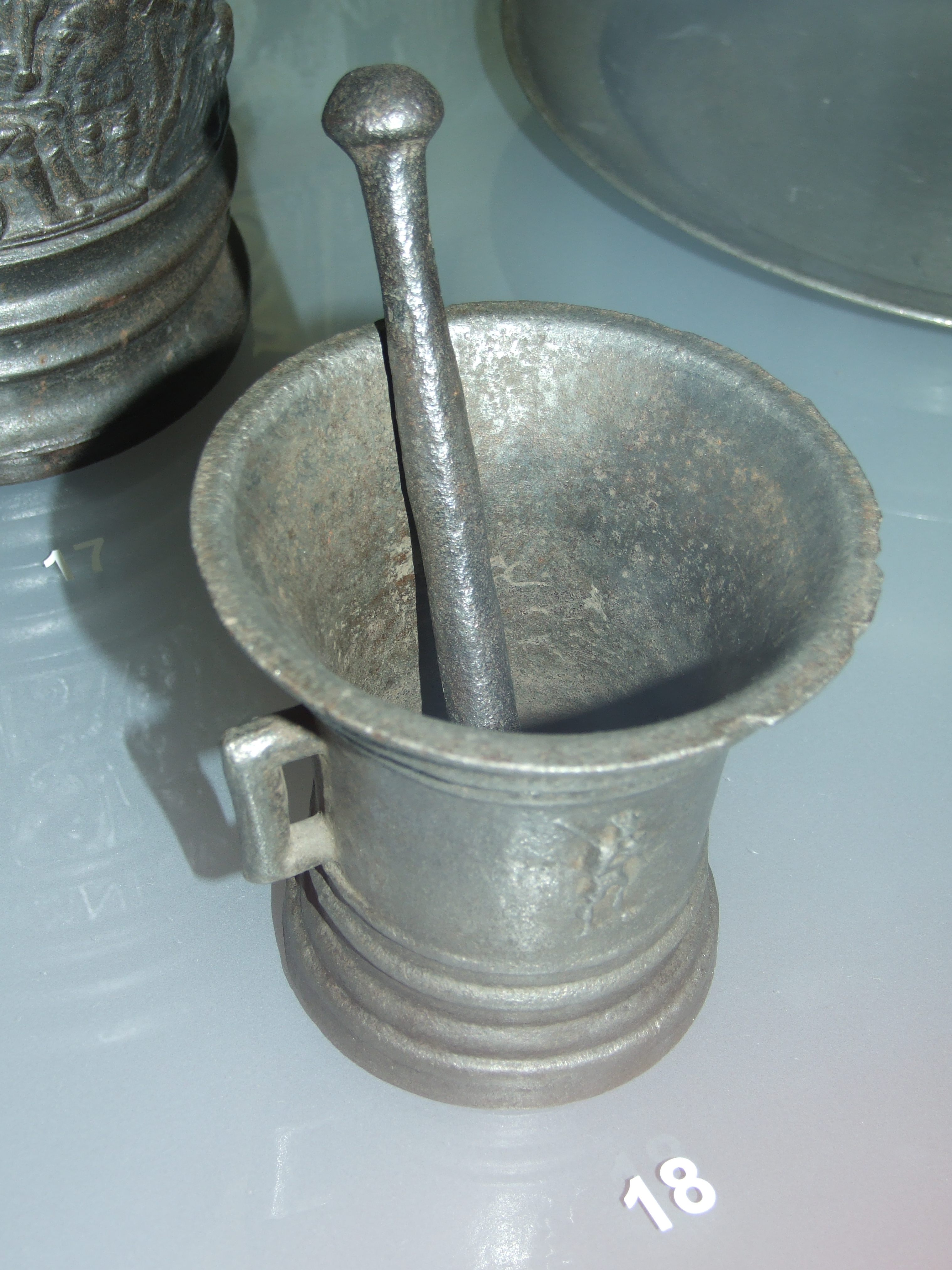 Exhibition item, Museum of Eastern Bohemia in Hradec Králové, Czech Republic